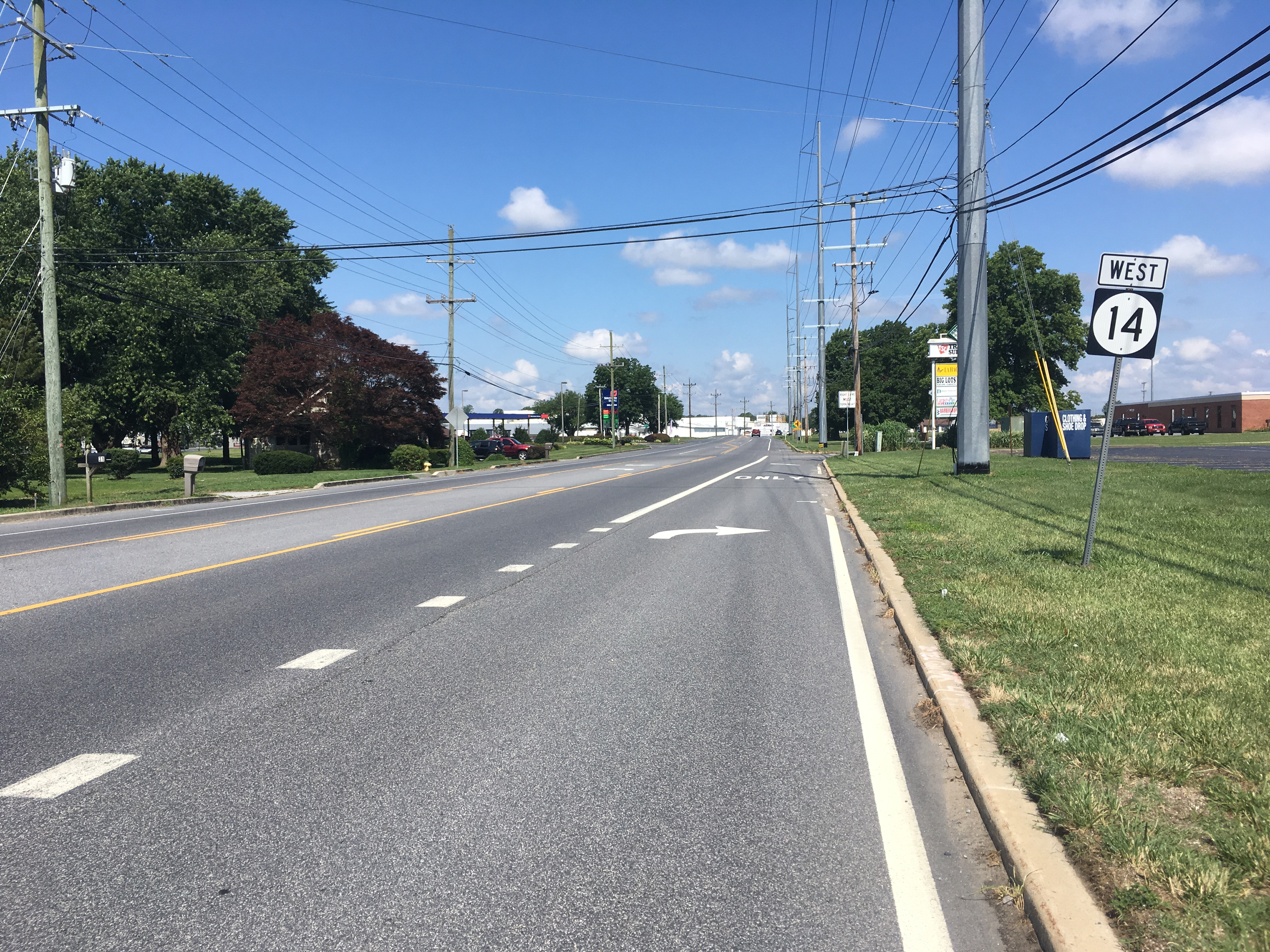 Westbound Delaware Route 14 (Milford Harrington Highway) past the intersection with U.S. Route 113 (Dupont Boulevard) in Milford, Delaware